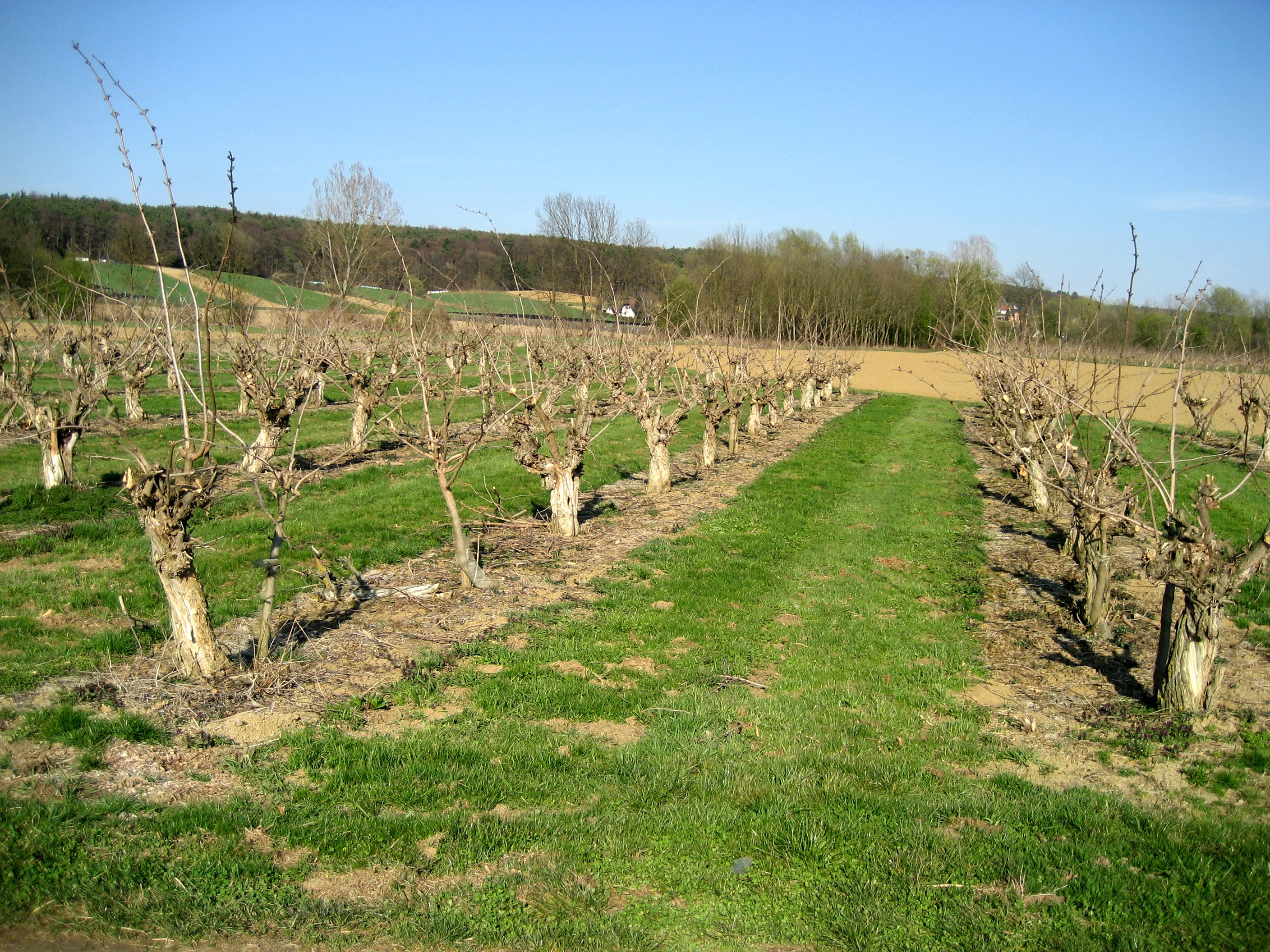 Black Elder (Sambucus nigra) near Sinabelkirchen, Austria, Europe